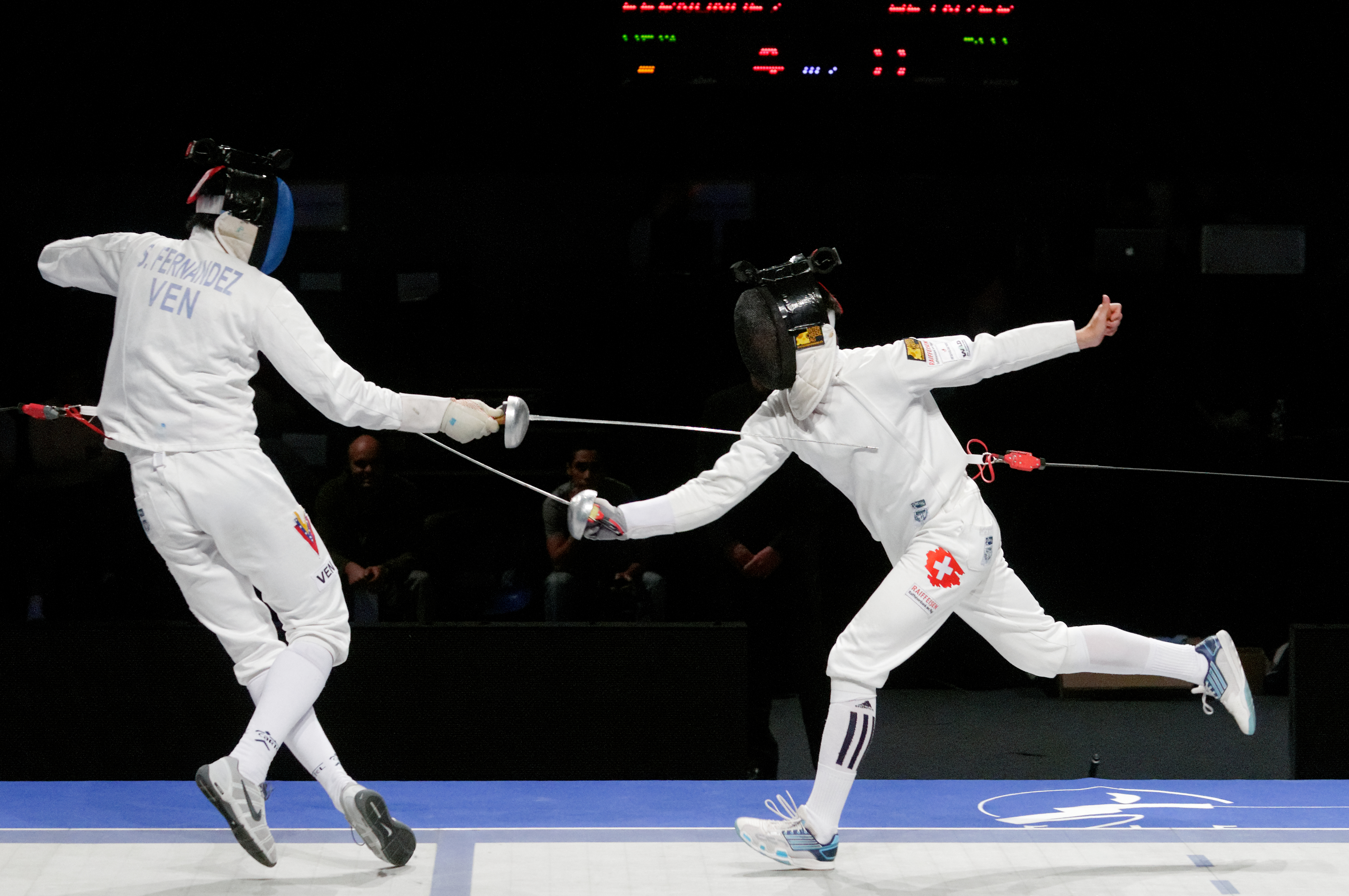 Quarter-finals of the Masters à l'épée 2012: Silvio Fernández (left) v Max Heinzer (right).